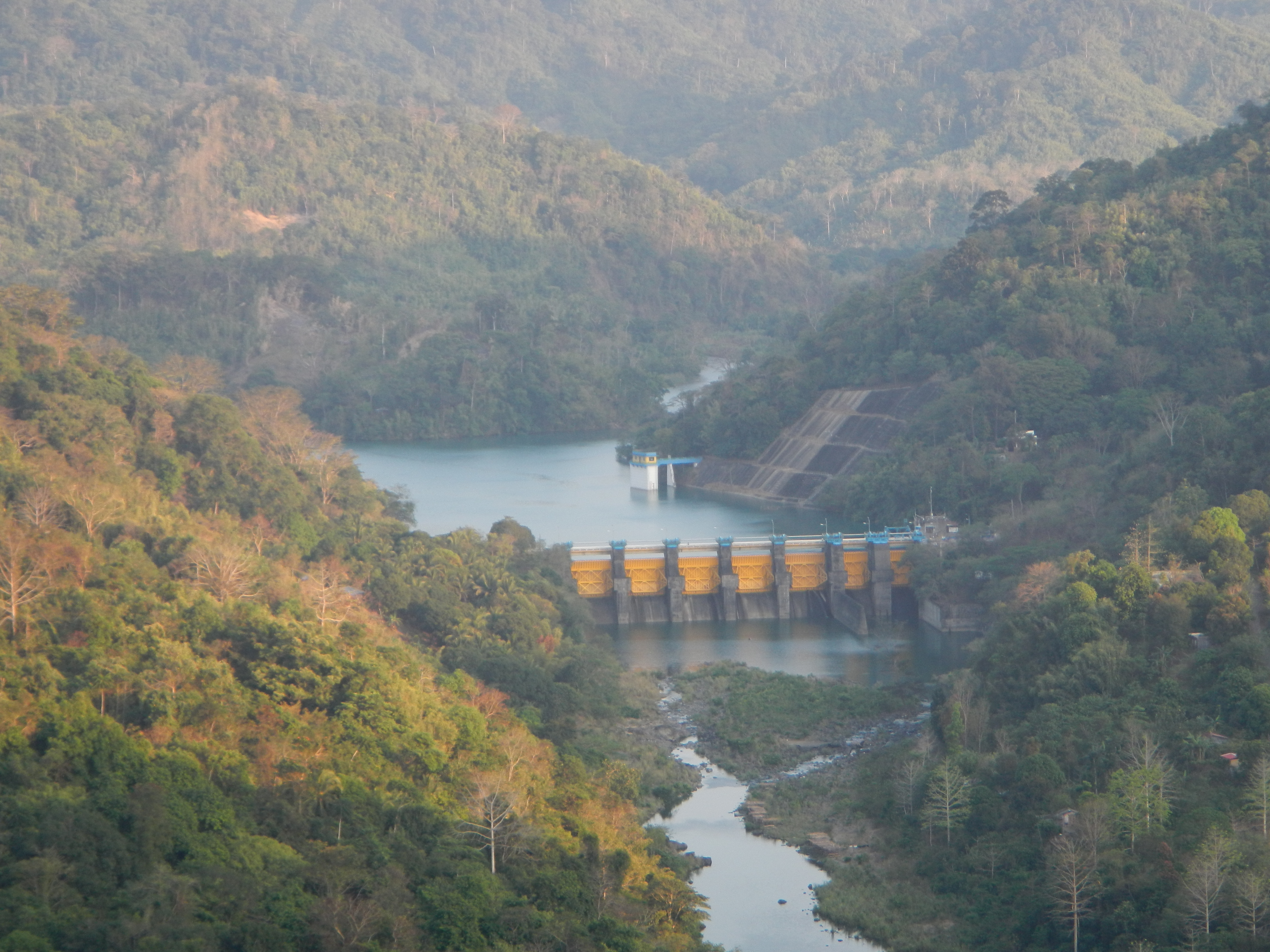 Ipo dam, Angat Rainforest and Ecological Park, Bit-Bit River-Bit-Bit Bridge in Barangay San Mateo beside San Lorenzo (Hilltop), Angat Reservoir and Hydroelectric Power Plant surrounded by lush greens, Angat Lake from Bigte, Norzagaray, Bulacan, Bulacan province (along the Bigte-San Mateo, Norzagaray, Bulacan Farm to Market Provincial Road interconnecting with the San Mateo-San Lorenzo, Norzagaray, Bulacan Farm to Market Road; connected by the Bit-Bit, River-Bit-Bit Bridge 14° 53.984N 121° 08.428E to the Angat Rainforest and Ecological Park, AREP, Watershed Management Department, Sitio Bitbit, Angat Watershed Area Team, by Presidential Proclamation Nos. 505 and 599 under the National Power Corporation, Exective Order No. 224, beside the Headquarters Alpha (AGGRESSOR) Company 48th Infantry Guardians BN, 7th Infantry Division, Philippine Army, Headquarters 3rd Platoon, 1st BUCAA Company, Charlie Company 70 IB (CAFGU) 7ID, PA, Sitio Suha Patrol Base, Detachment, from and along the General Alejo G. Santos Highway (Angat-Norzagaray, Bulacan section) interconnecting with and from the Norzagaray, Bulacan Welcome arch located in Barangay Minuyan I, Sapang Palay, City of San Jose del Monte, along Quirino Highway).